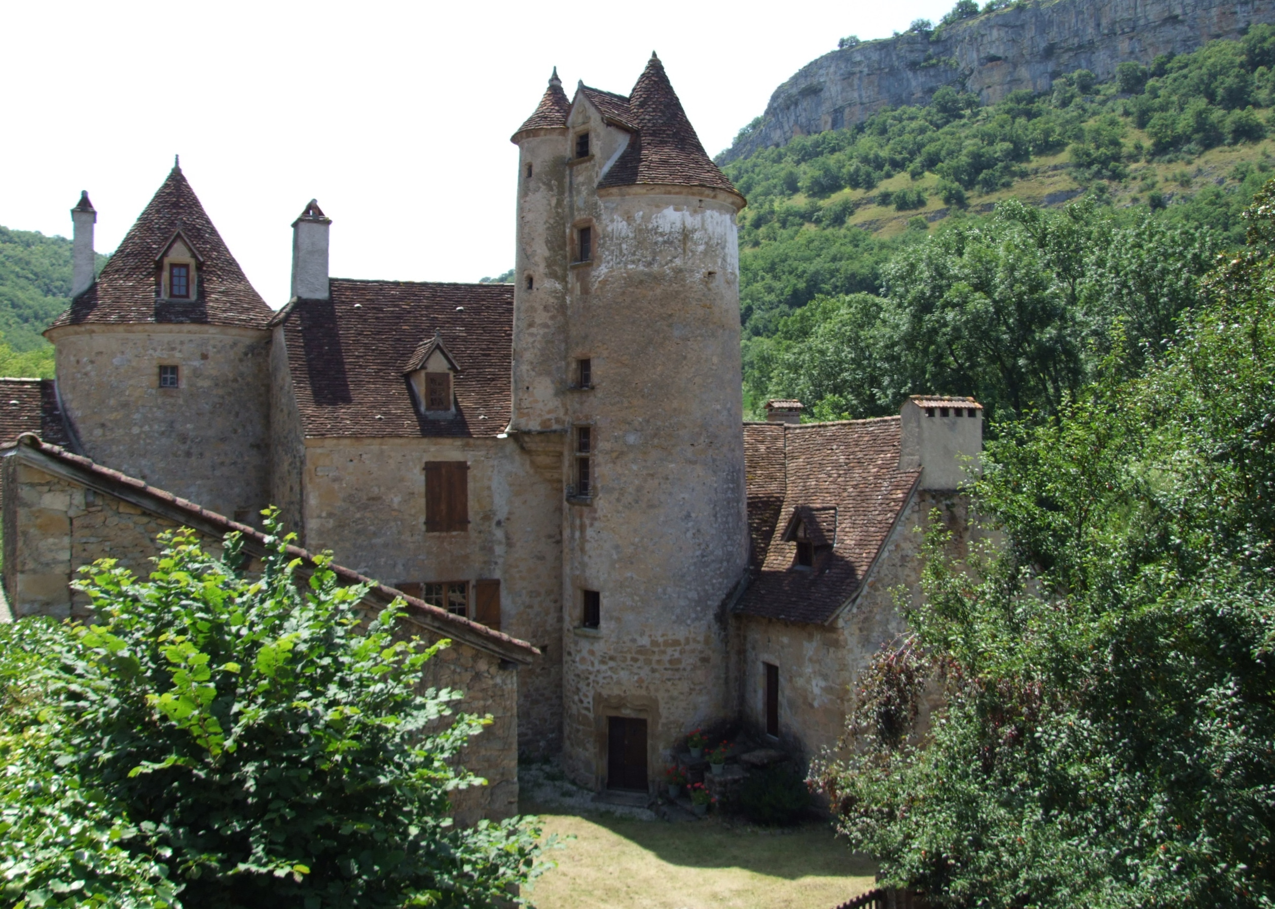 Autoire, Lot, FRANCE